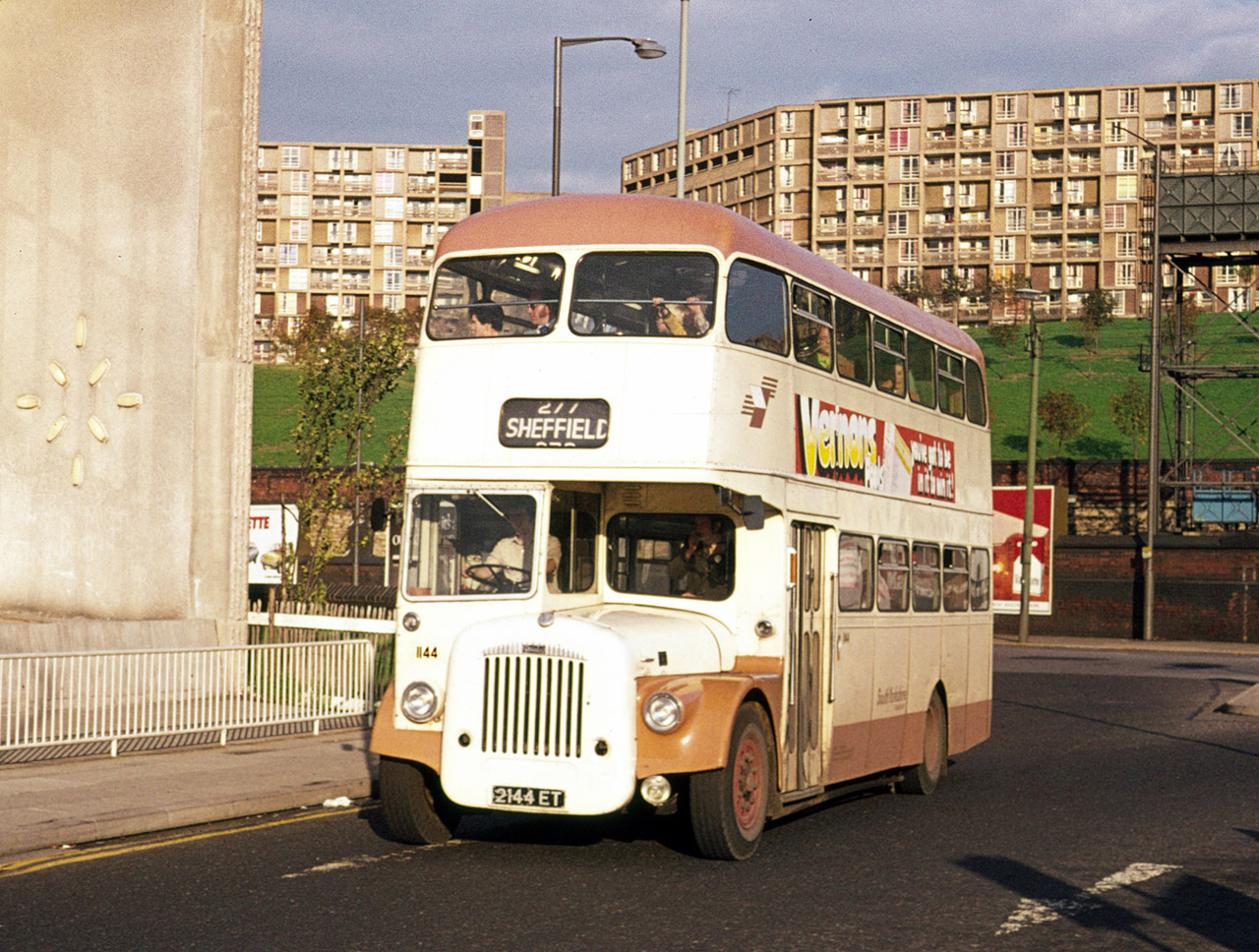 Arrival from Rotherham, Data from Geograph: Description: A former Rotherham Corporation Daimler CVG6 with Roe bodywork, now sporting the “coffee and cream” livery of South Yorkshire PTE, on Harmer Street approaching Pond Street Bus Station. It is working the service 277 from Doncaster and... more ICBM: 53.379542243168, -1.4626954931794 Location: (about 0 km from) near to Sheffield, Great Britain.